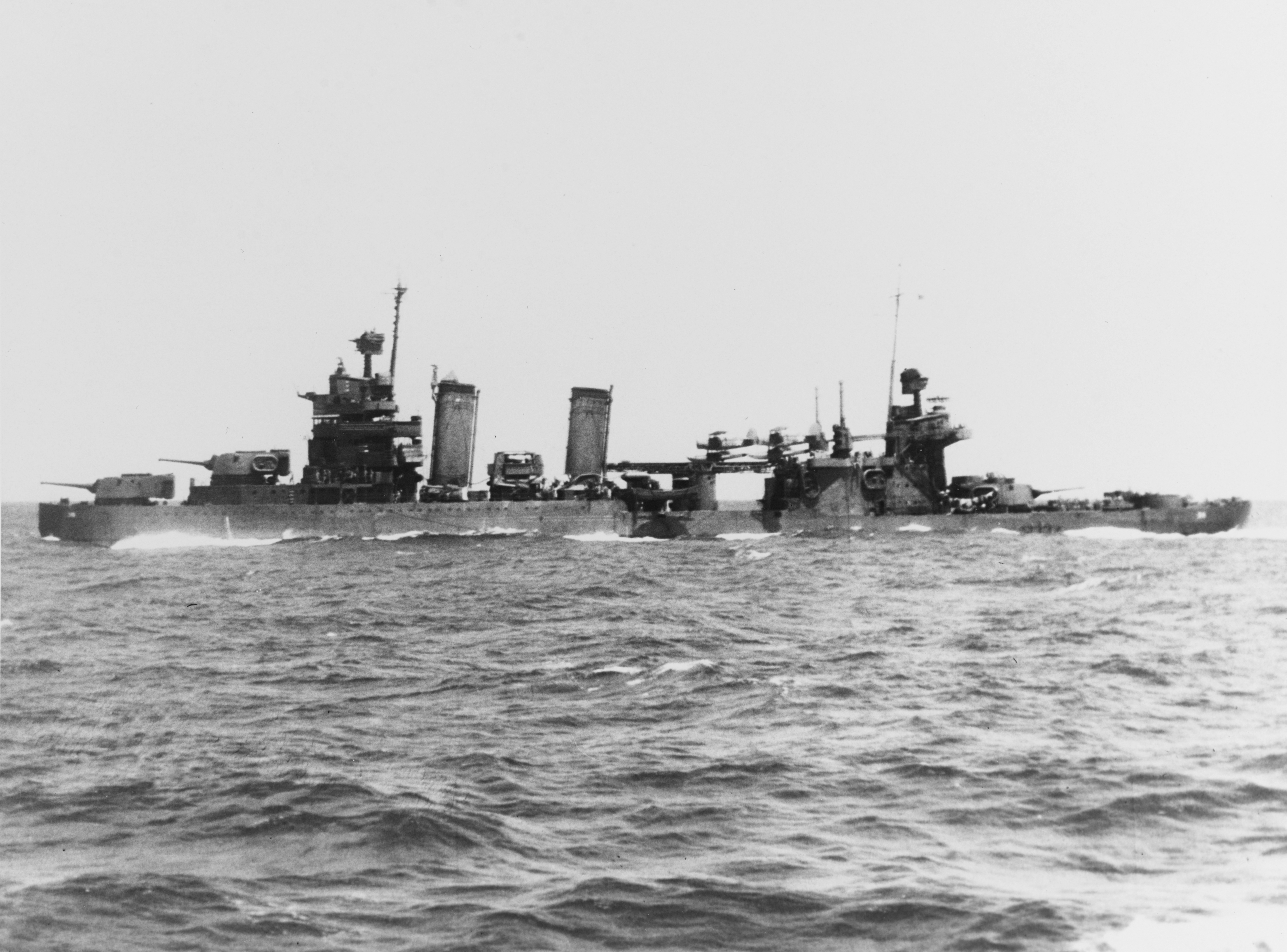 The U.S. Navy heavy cruiser USS Minneapolis (CA-36) en route to Pearl Harbor, Hawaii (USA), for repairs, circa in January 1943. She had lost her bow when she was hit by Japanese torpedoes during the Battle of Tassafaronga, off Guadalcanal on 30 November 1942.